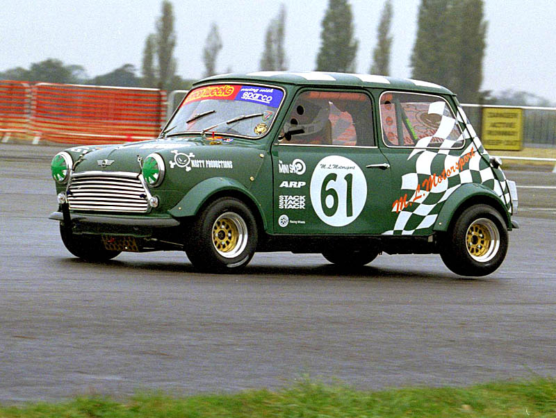 MLM Race car